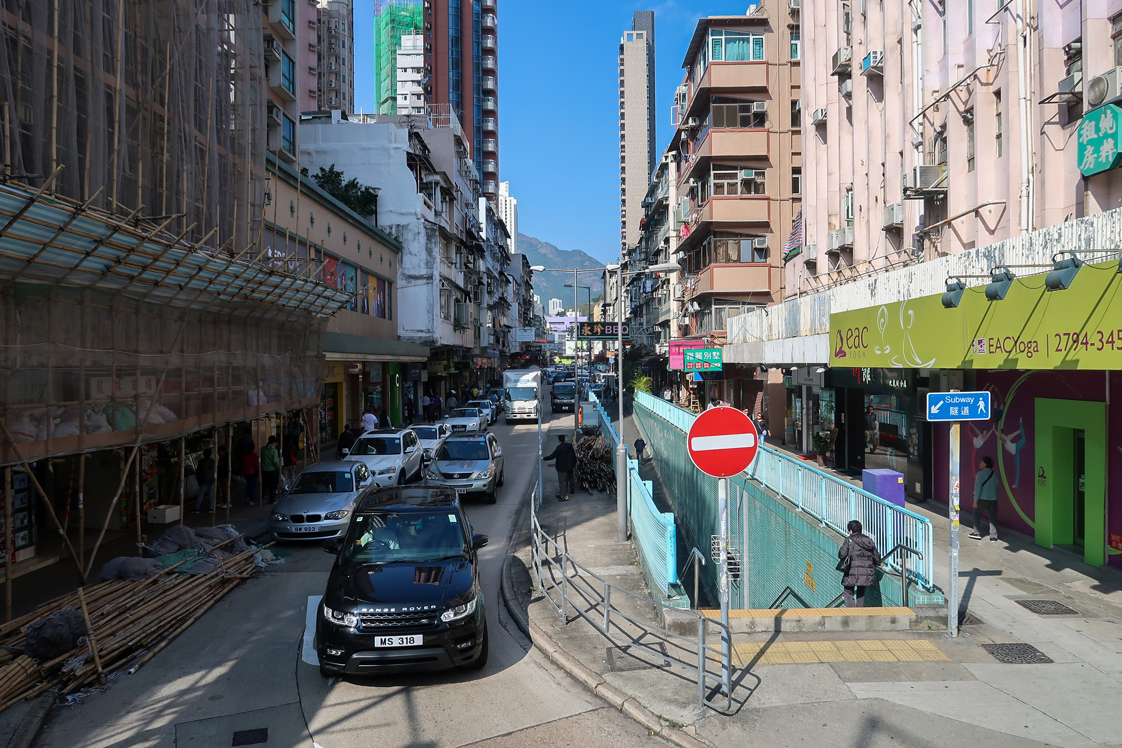 Lion Rock Road